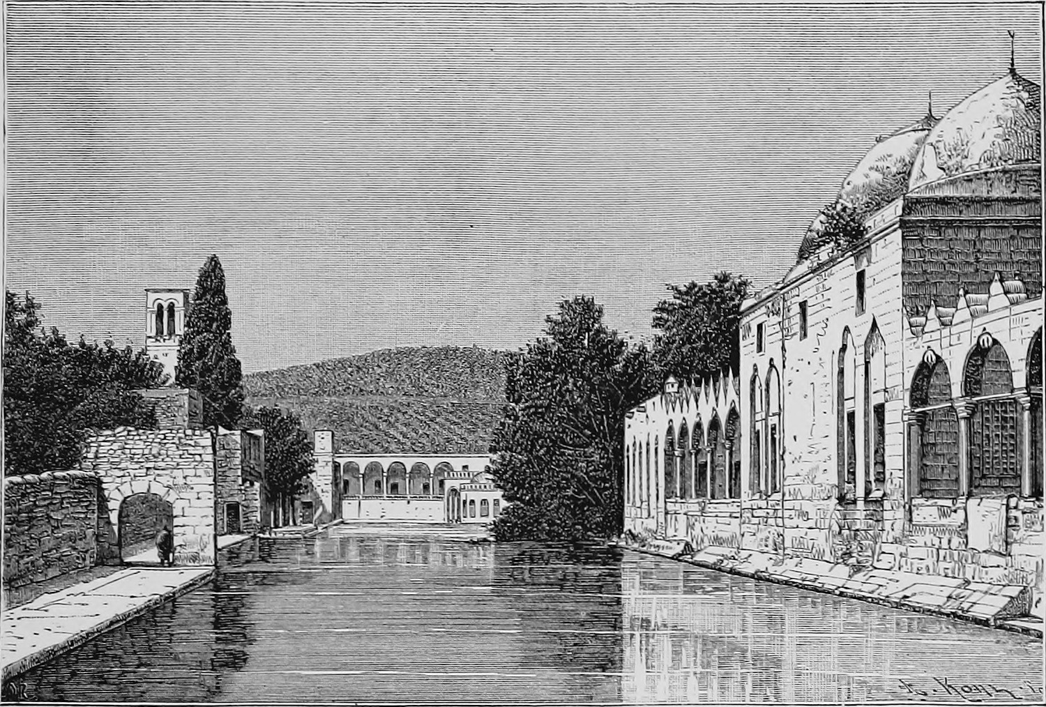 Funtain of Abraham in Şanlıurfa Identifier: cu31924095158964 Title: The universal geography : the earth and its inhabitants Year: 1876 (1870s) Authors: Reclus, Elisée, 1830-1905 Ravenstein, Ernest George, 1834-1913 Keane, A. H. (Augustus Henry), 1833-1912 Subjects: Geography Publisher: London : J.S. Virtue & Co., Ltd.